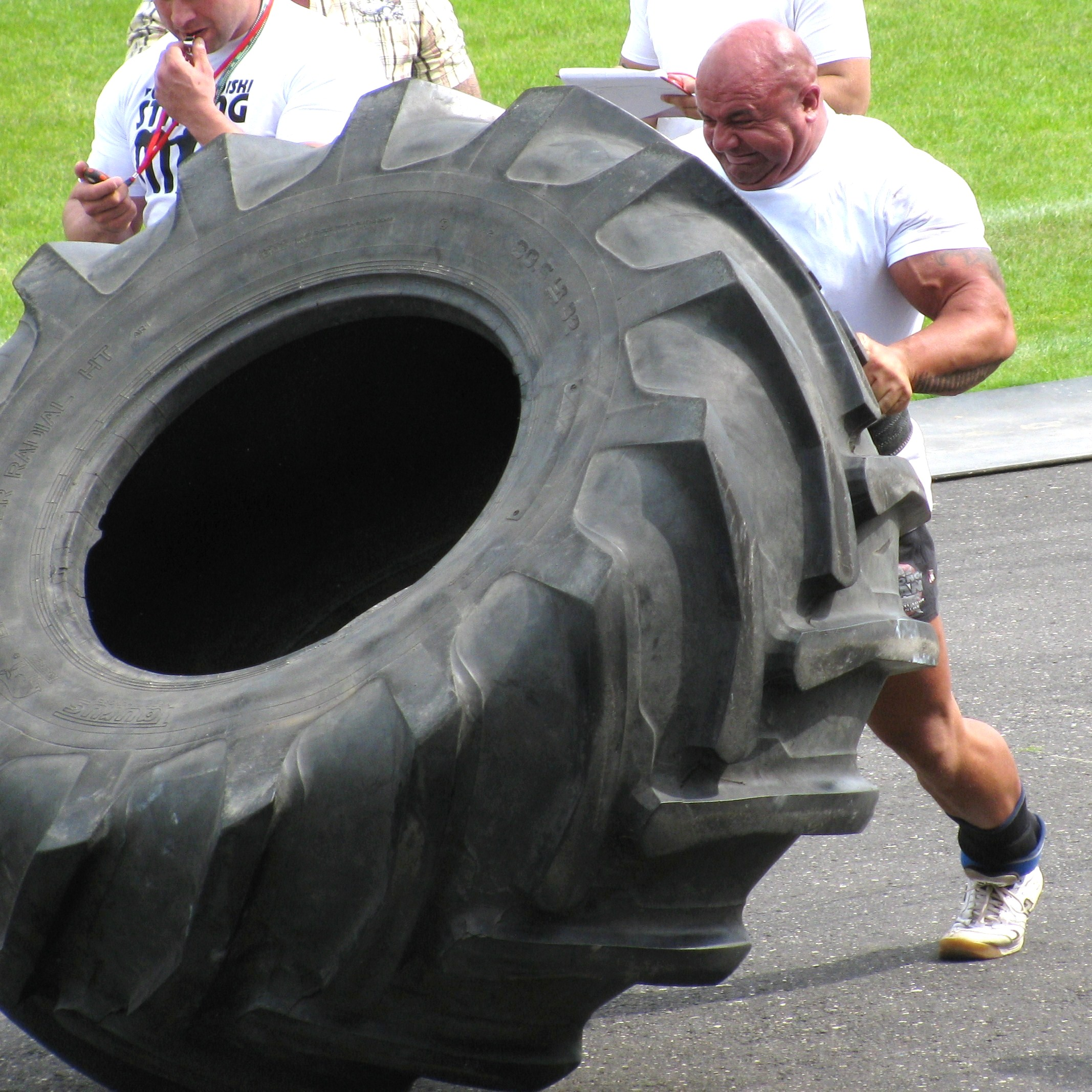 Ireneusz Kuraś - a strength athlete from Poland at the Tyre Flip.